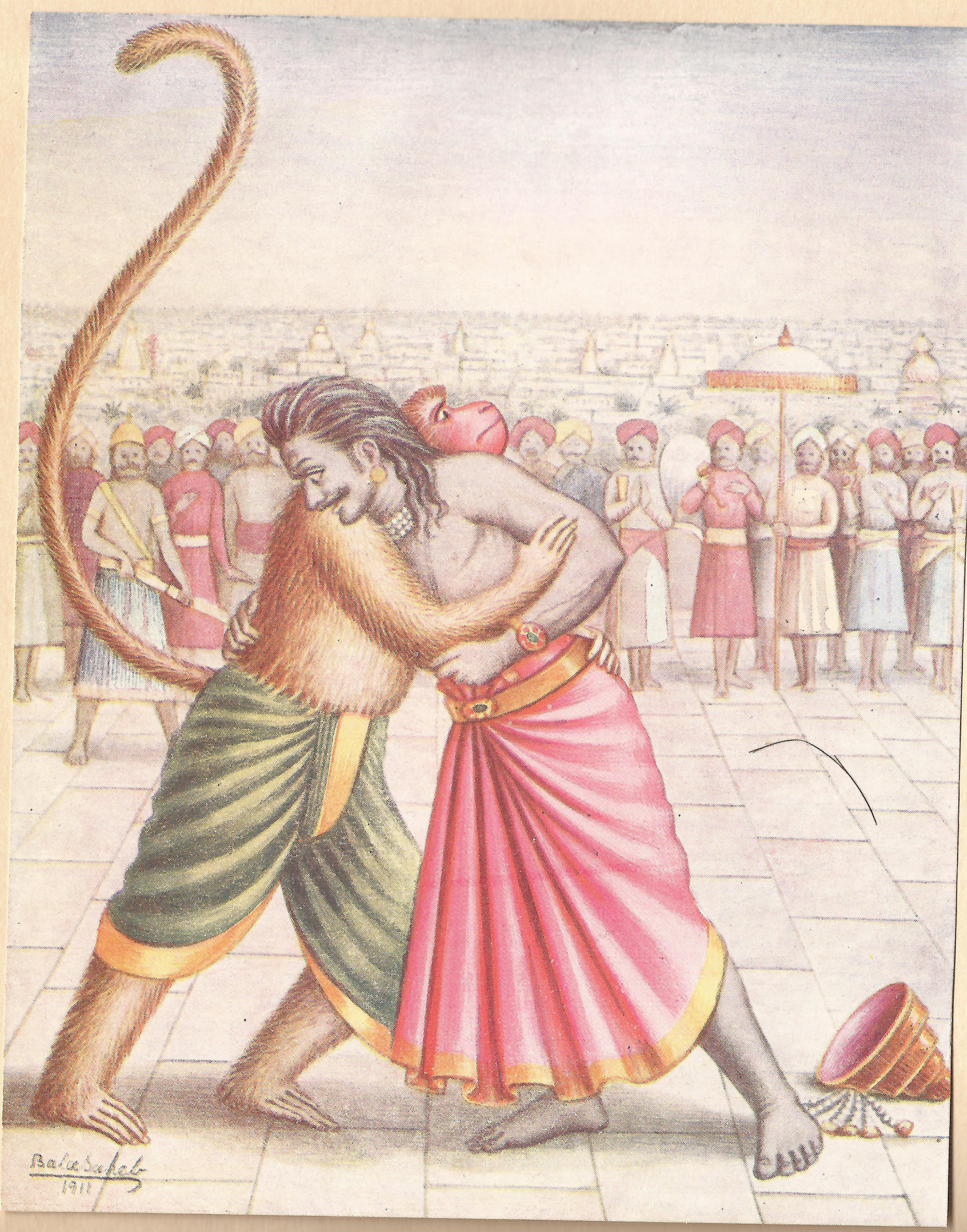 he bridge to Sri Lanka was built and Rama's army crossed the sea. Ravana was completely taken aback at the news. Rawana climbed the ramparts and started assessing his enemy's army. Both sides were cautious. Sugreeva at once took a long jump and knocked off Ravana's crown. Wrestling duel started between the two great heroes which lasted for hours. Ravana was super strong, having undertaken hard penance, and Sugreeva had to slowly withdraw. Both returned to their camps.